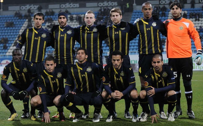 Maccabi Tel-Aviv against Dynamo Kiev